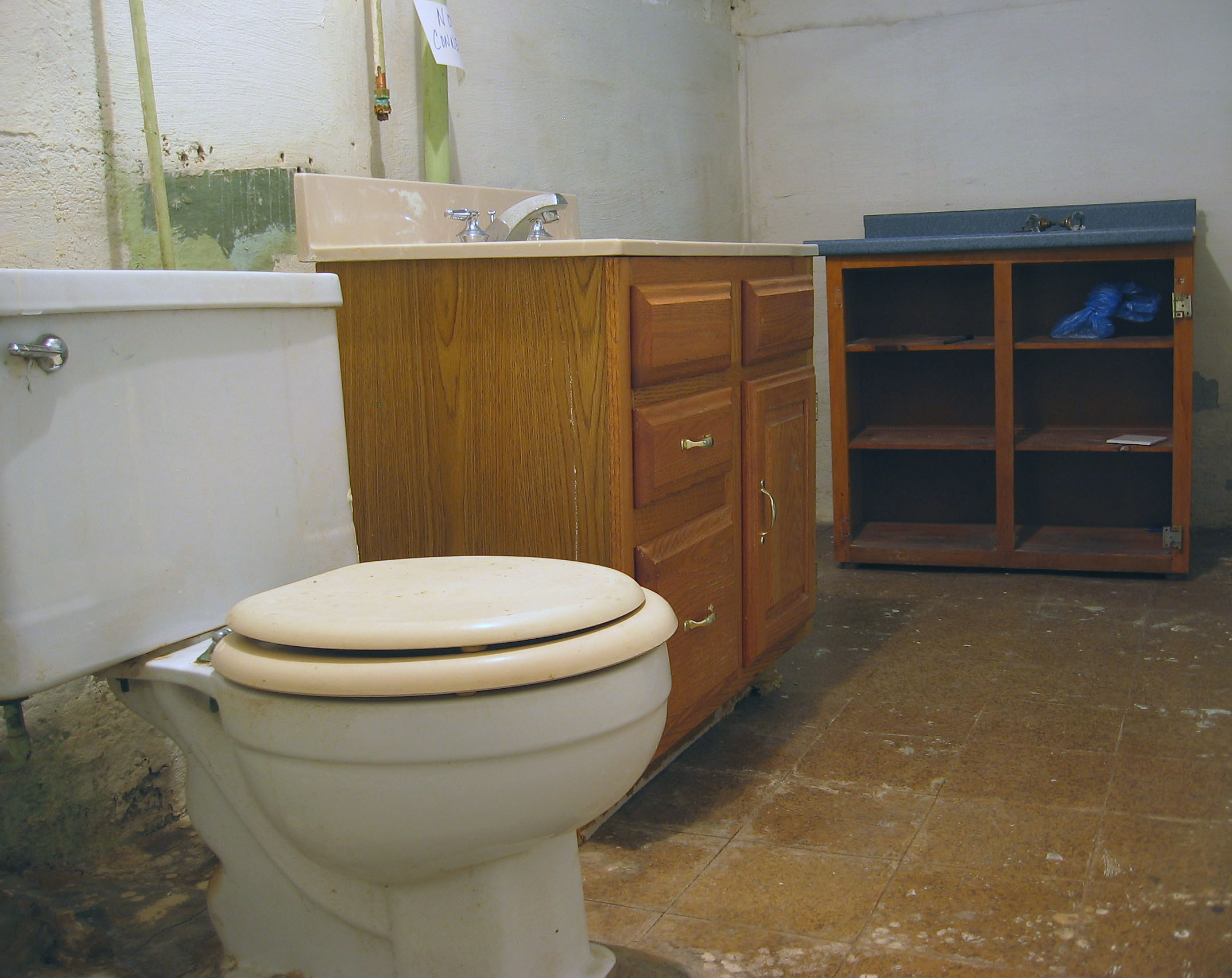 Popular culture icon, a so-called Pittsburgh Potty or Pittsburgh Commode, dubbed Pittsburgh toilet by newspapers, installed in good ole times in unheated basements in Pittsburgh, sometimes in the central locations, to prevent freezing.